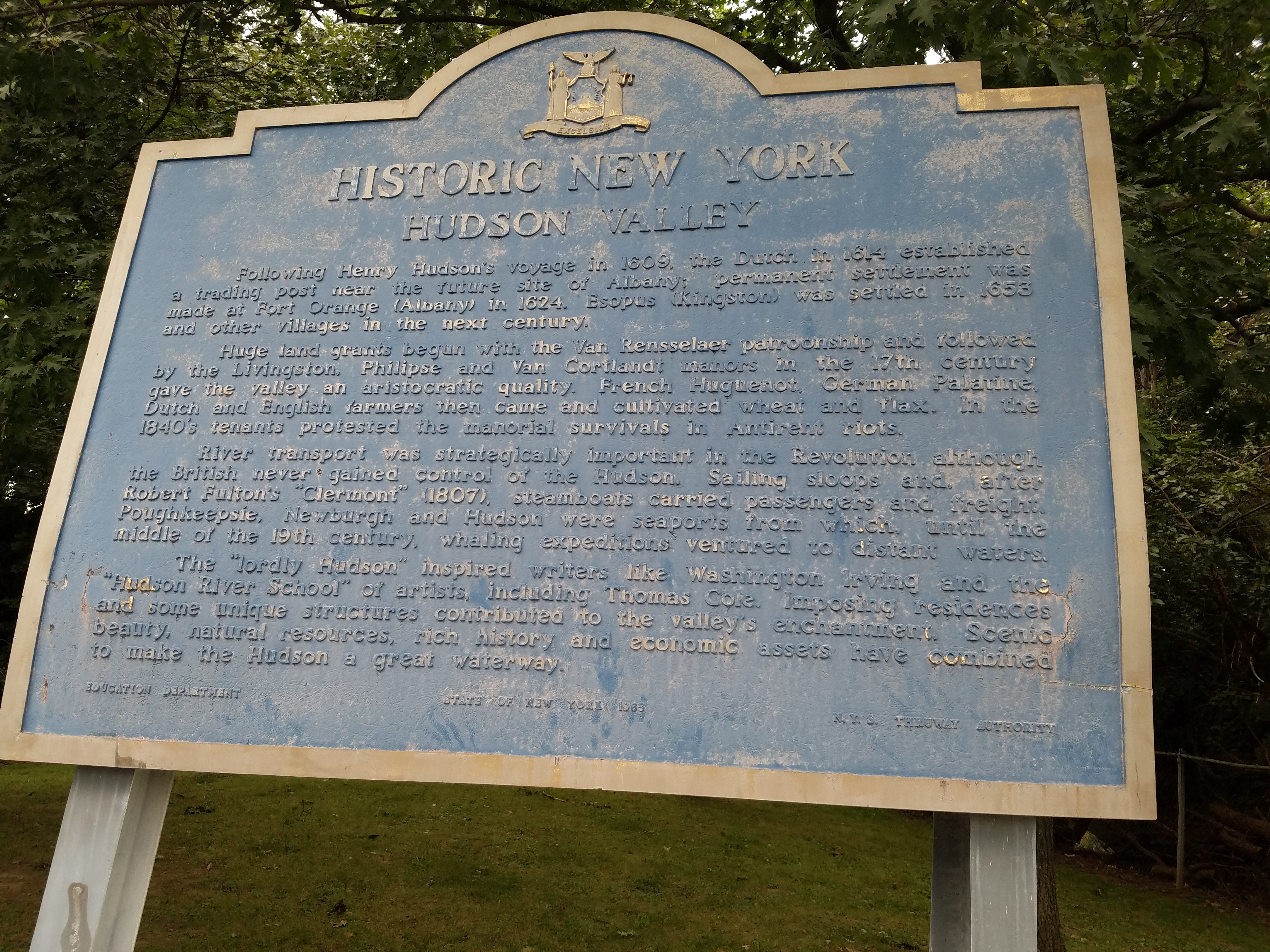 New York State historic marker for the Hudson Valley